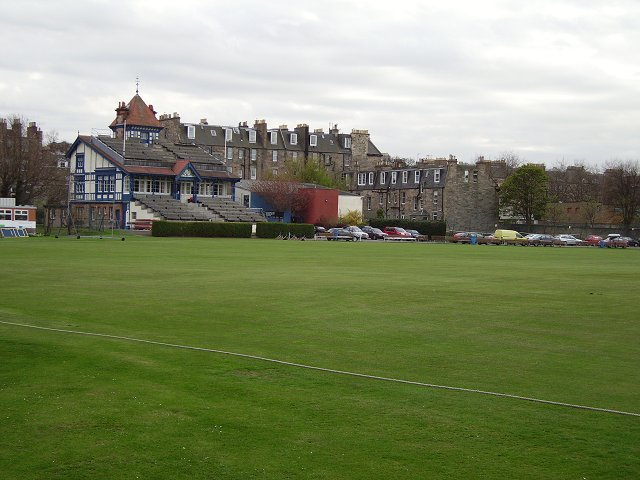 The Grange. Usual home of the Scotland Cricket team.